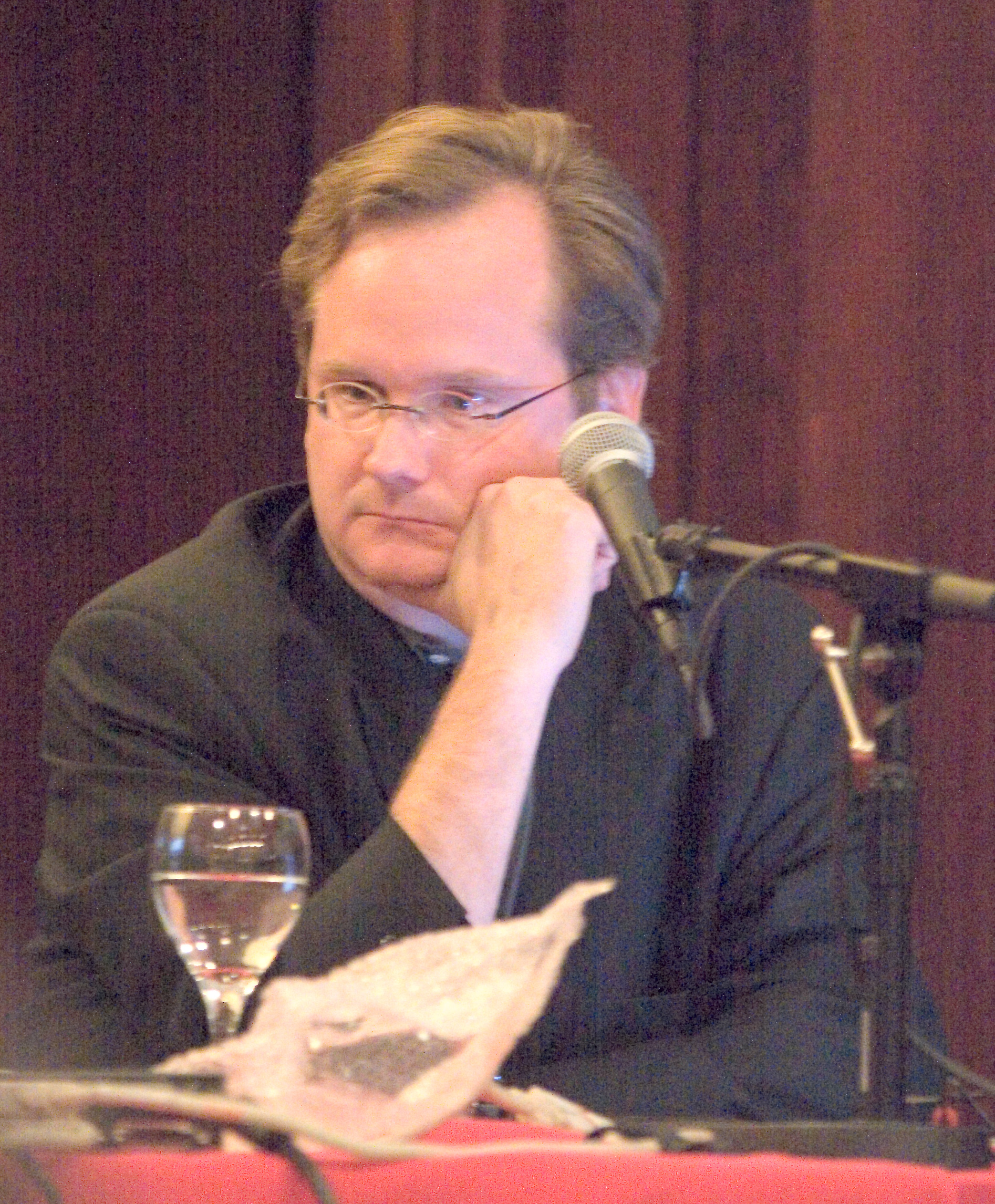 Lawrence Lessig, an American academic.